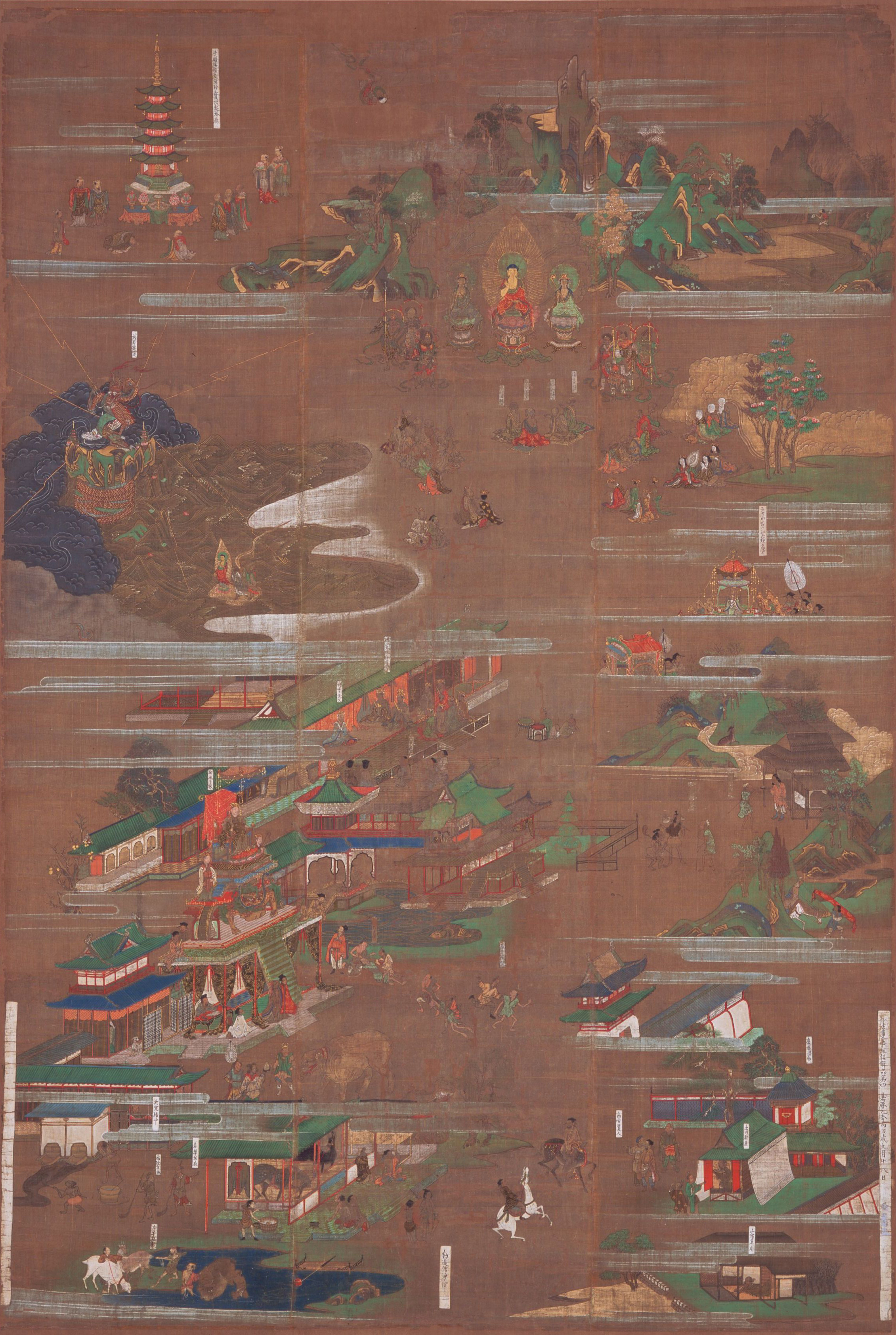 Lotus Sutra Mandala, Honpoji, Toyama, Toyama, Japan